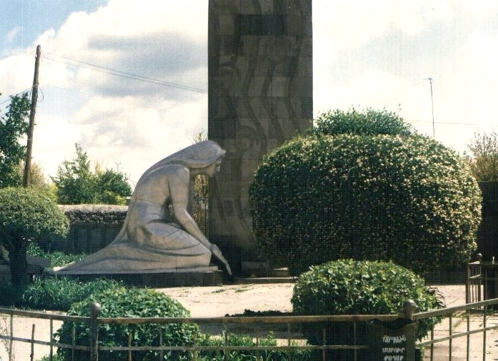 statue in vardenis